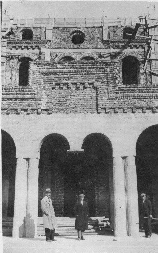 Building of The holy heart of Jesus church in Rakovski in 1929